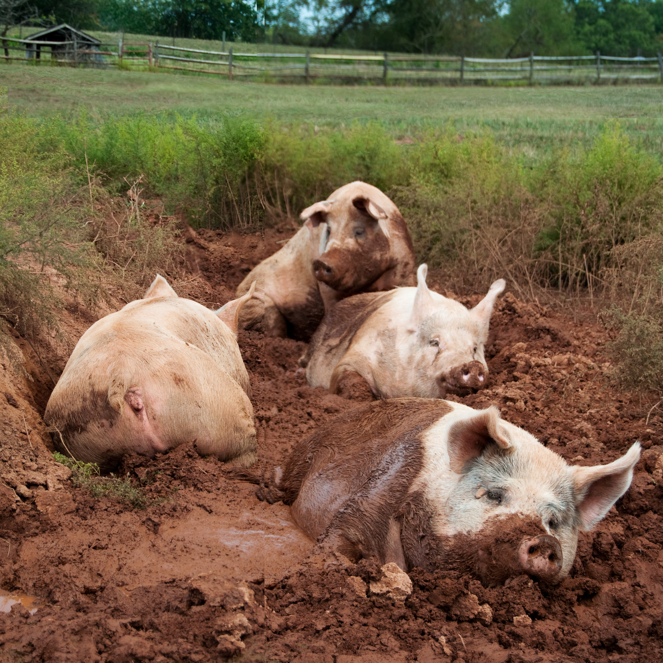 Yorkshire pigs wallow in mud at the Poplar Spring Animal Sanctuary in Poolesville, Maryland.